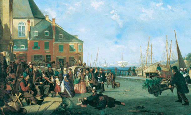 Behind Bonsecours Market, Montreal by William Raphael. Originally titled "Immigrants at Montreal".